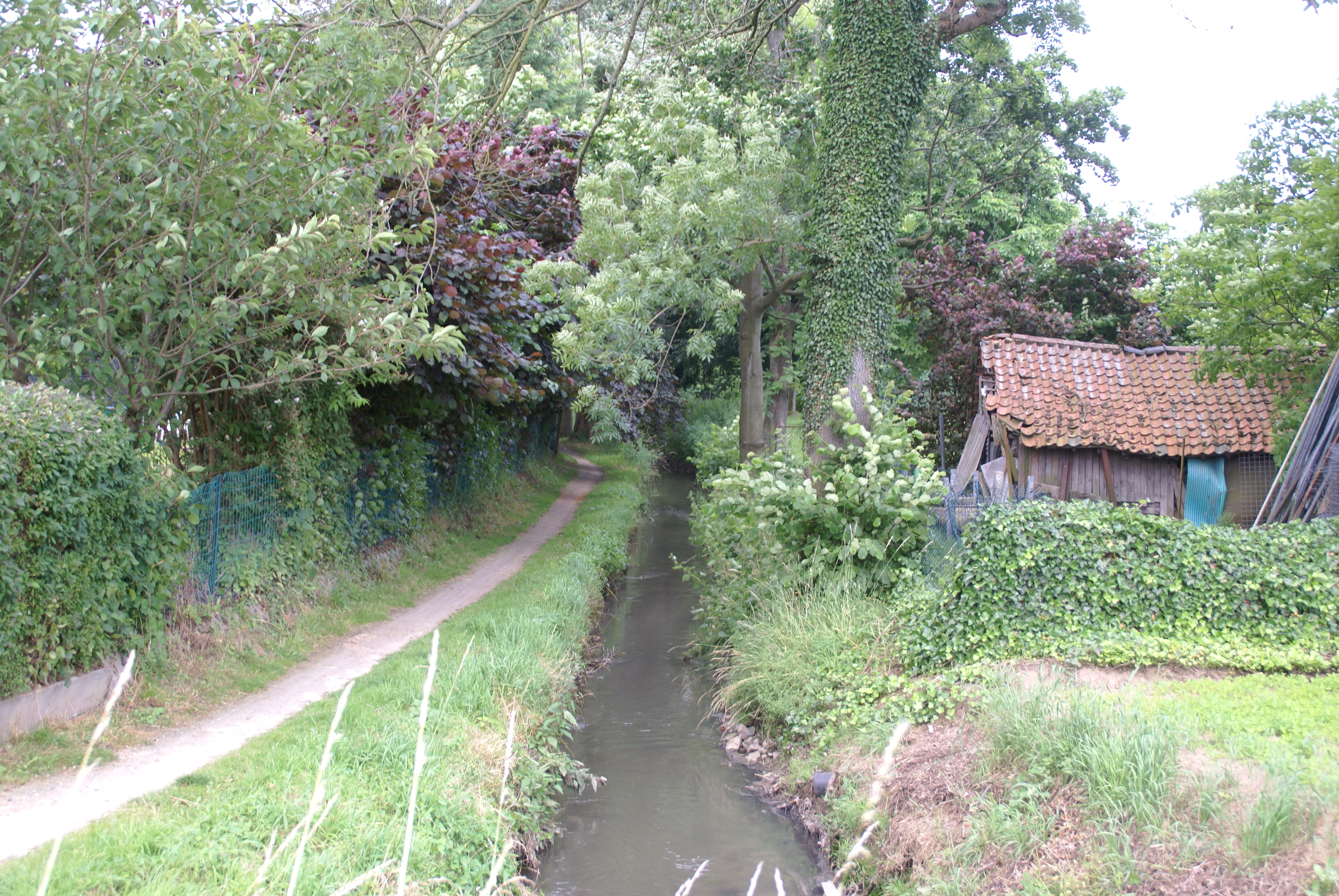 Leefdaal (Belgium): The river Voer